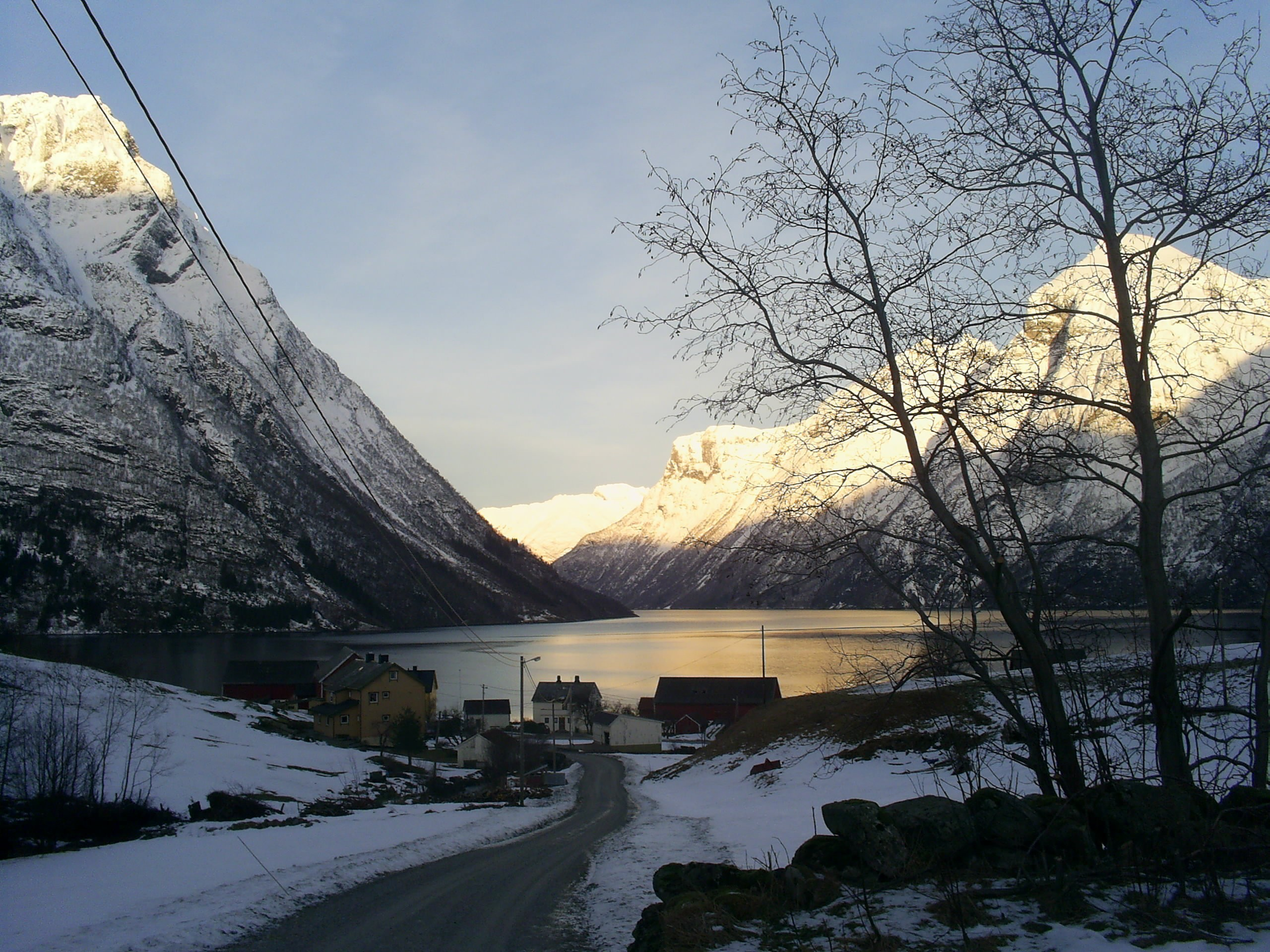 Depicted place: Leira, Ørsta